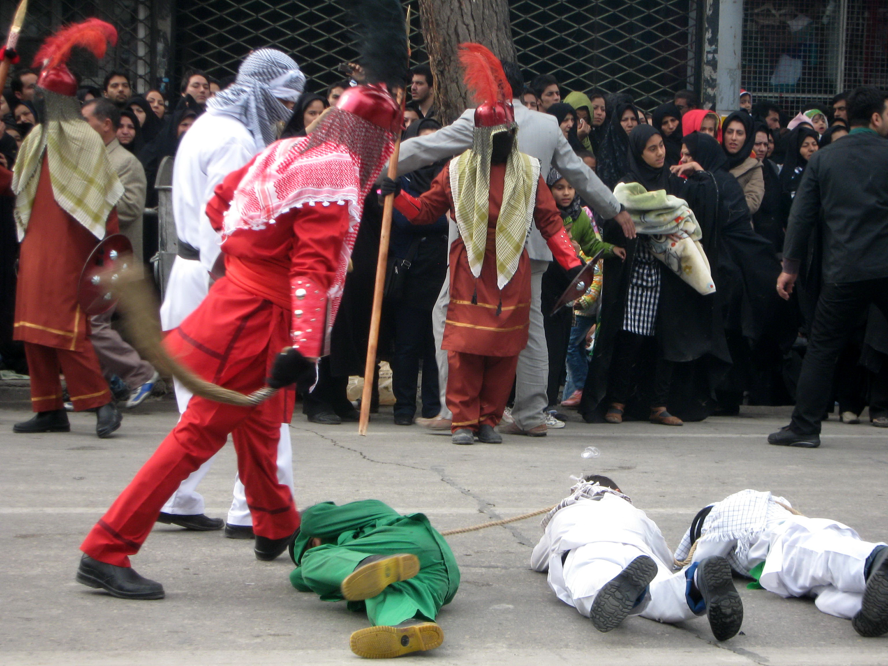 Dramatic (Shabih) - November 14,2013 - Muharram 10,1435 - Main Street of Nishapur